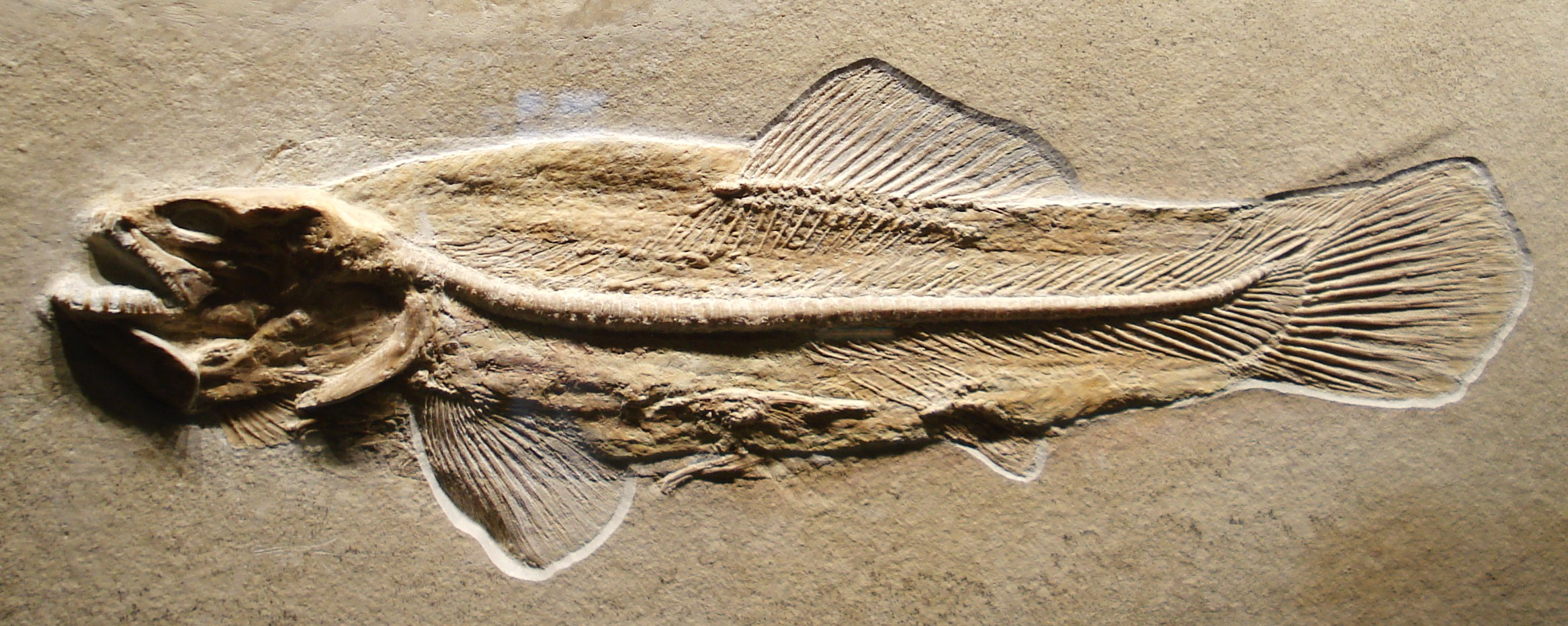 fossil of Solnhofenamia elongata